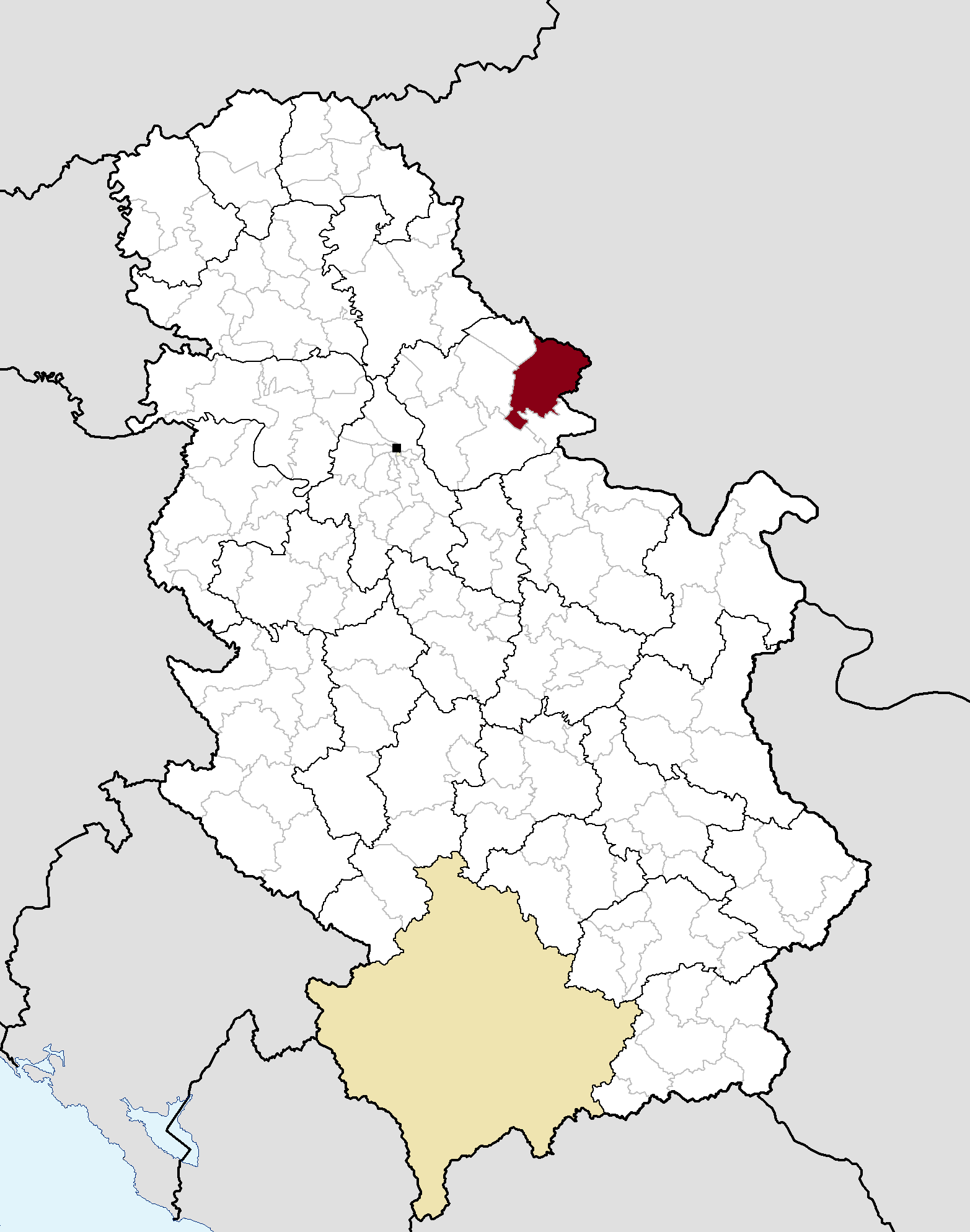 Municipal location in Serbia